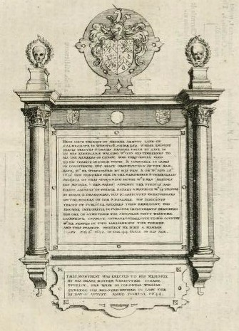 Engraving of wall-mounted monument to George Abbott (1604–48), in the parish church of SS Theobald and Chad, Caldecote, Warwickshire, England, from William Dugdale's The Antiquities of Warwickshire Illustrated (1656). Cropped to half the plate.